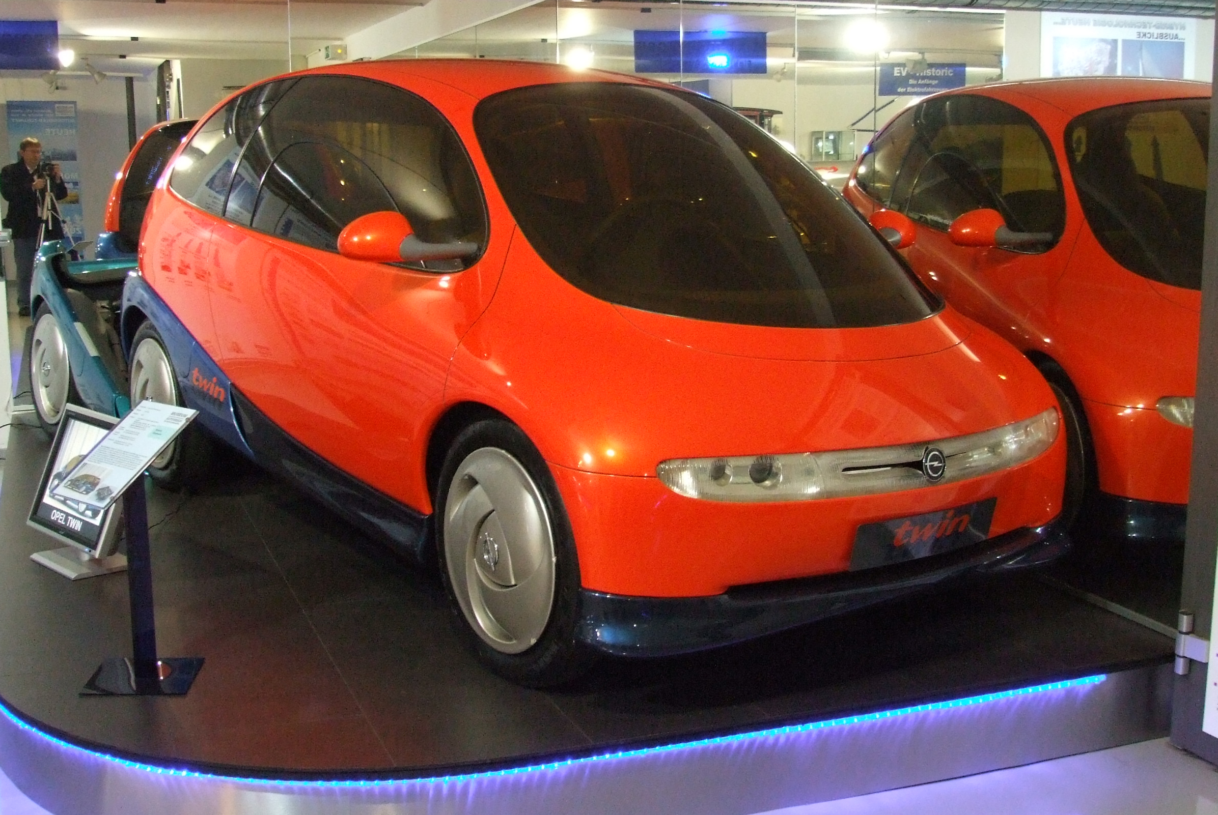 Prototyp Opel Twin, an electric car and combustion car, year 1992, special exihibition sept. 08 - march 09 at Museum Autovision , Altlußheim